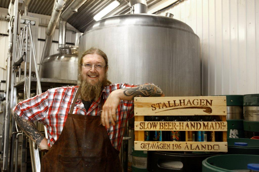 Brewery master Mats Ekholm standing in Stallhagen's production area.